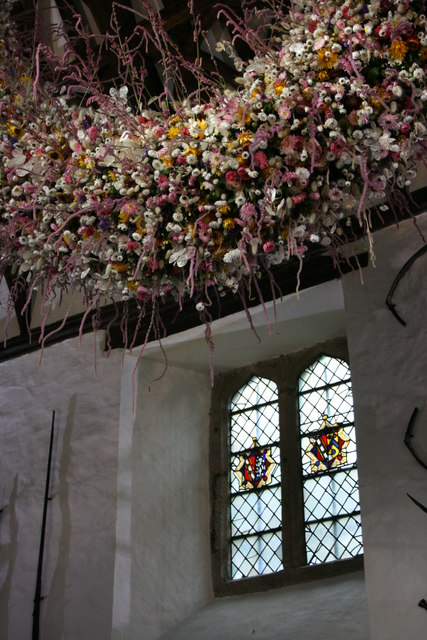 Cotehele House, Dried flowers Christmas Garland. The Christmas Garland hangs from the roof, and the colours are emphasised by the simplicity of the whitewashed walls of the Great Hall. See 1604452.